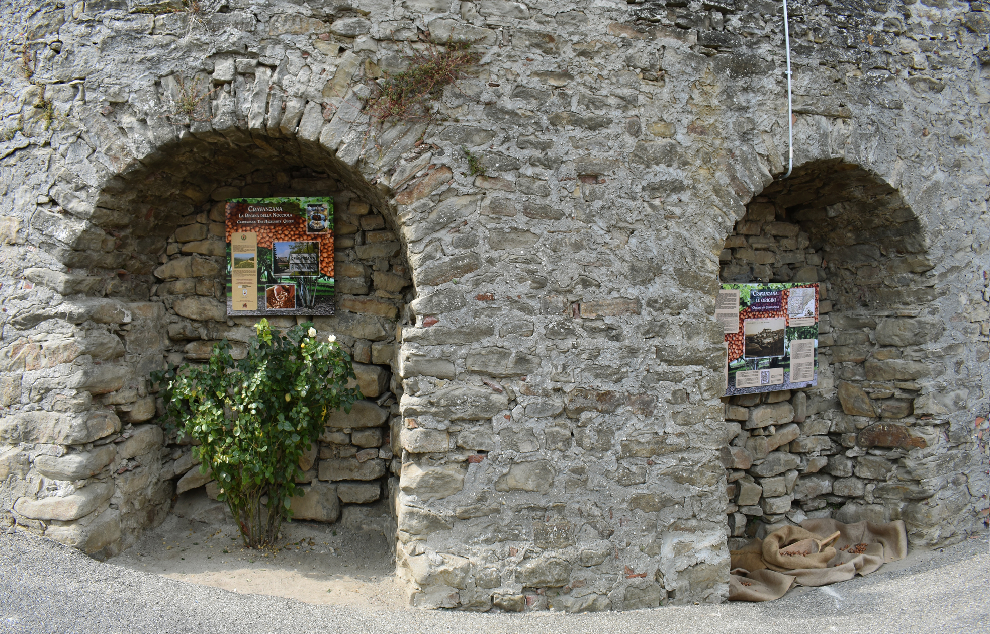 Cravanzana (Piedmont, Italy), view of the Open air Hazelnut Museum